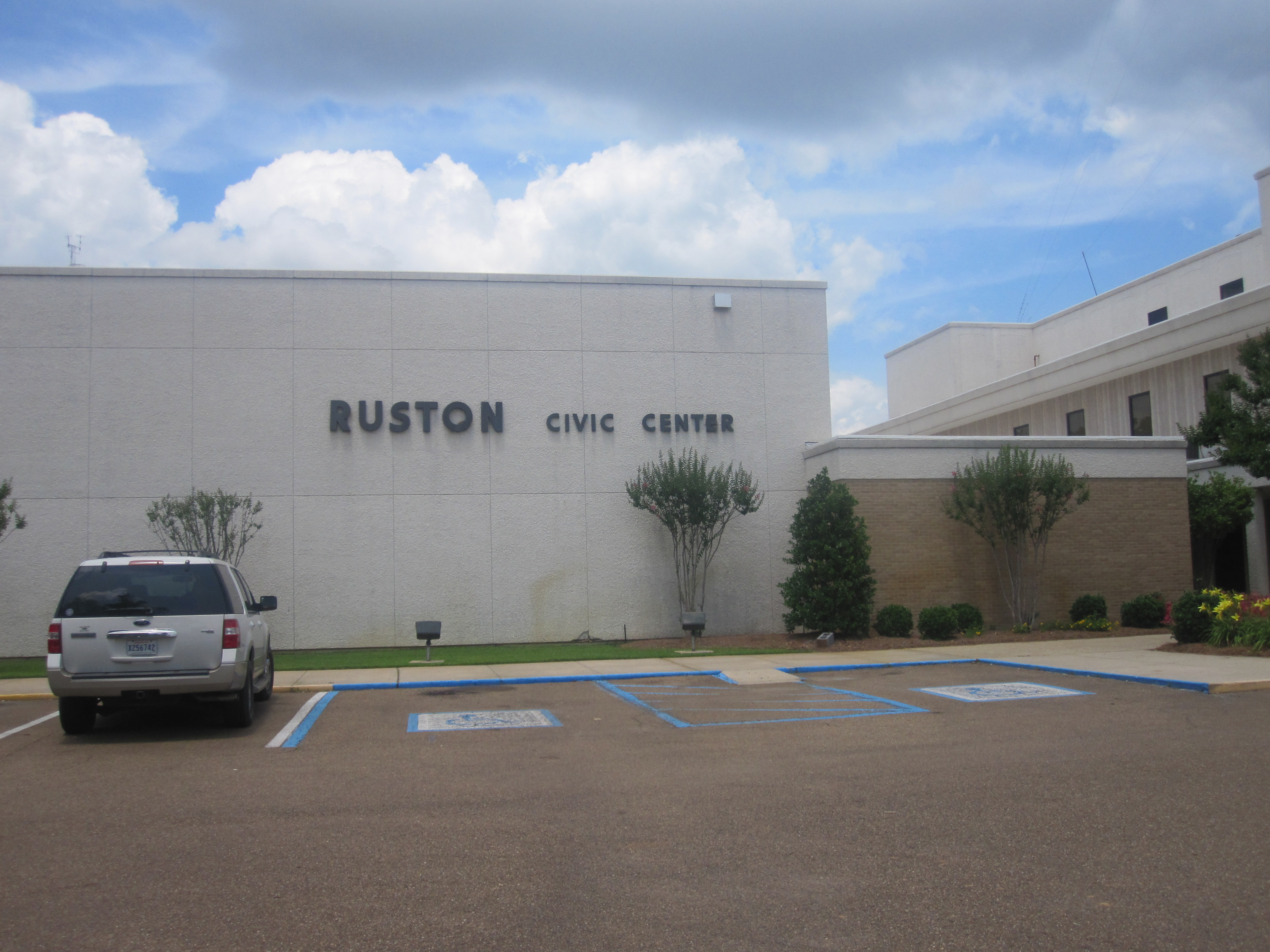 I took photo with Canon camera.